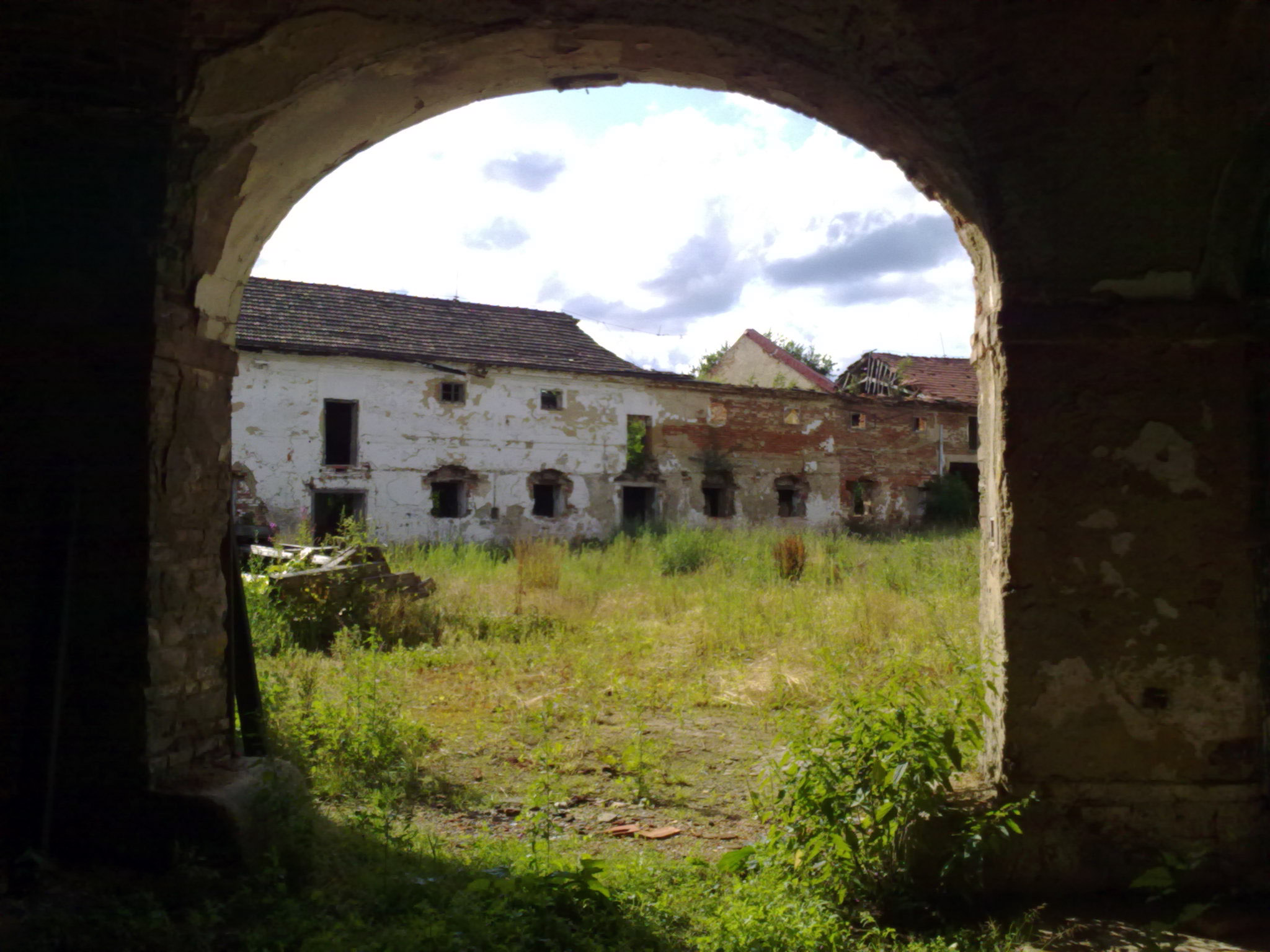 Hamrnický dvůr, also known as Hammerhof, in |, Karlovy Vary Region, Czech Republic.